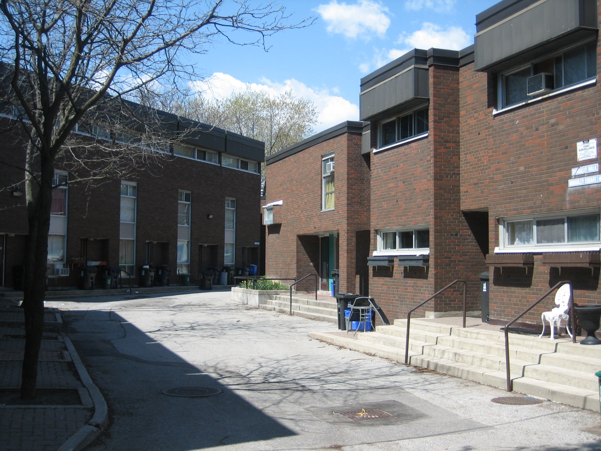 Alexandra Park, Toronto